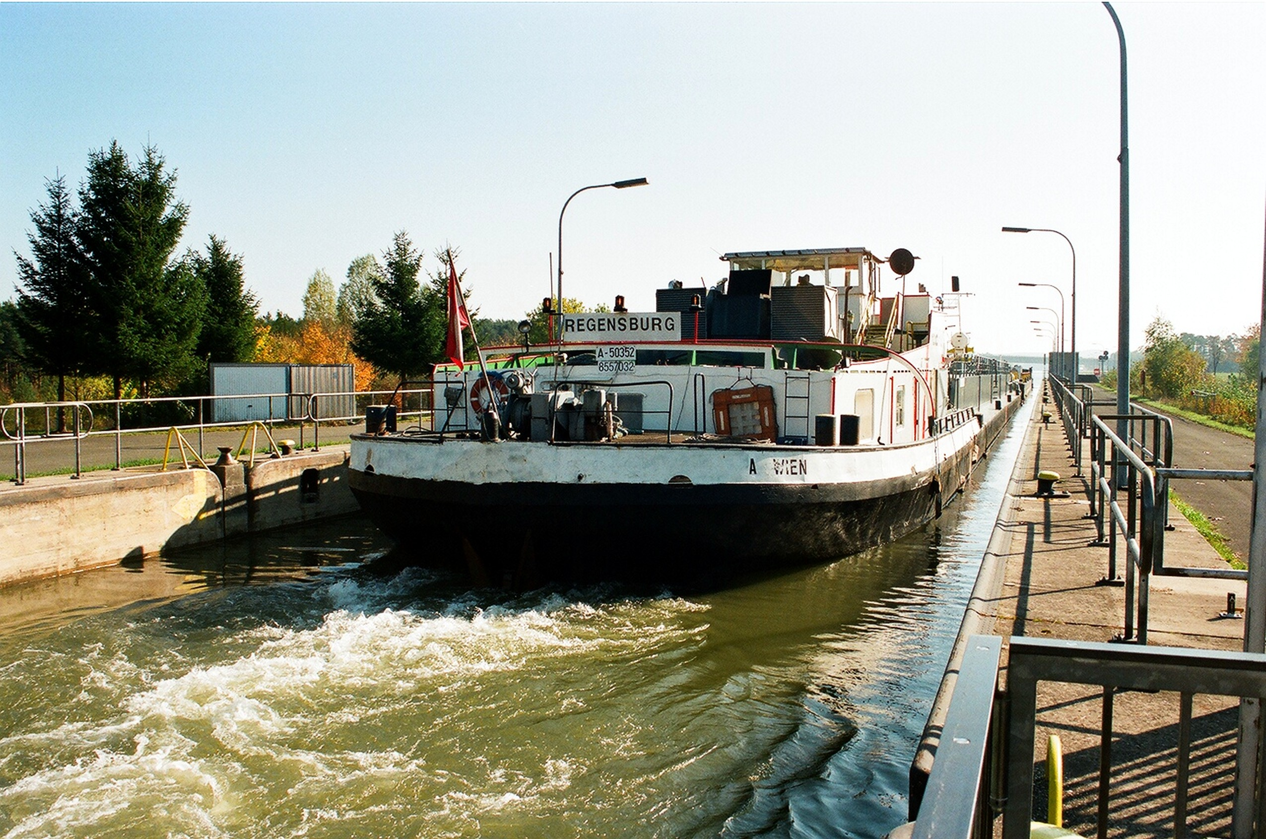 Eckersmühlen (Roth), the sluice of the Main-Danube-Channel